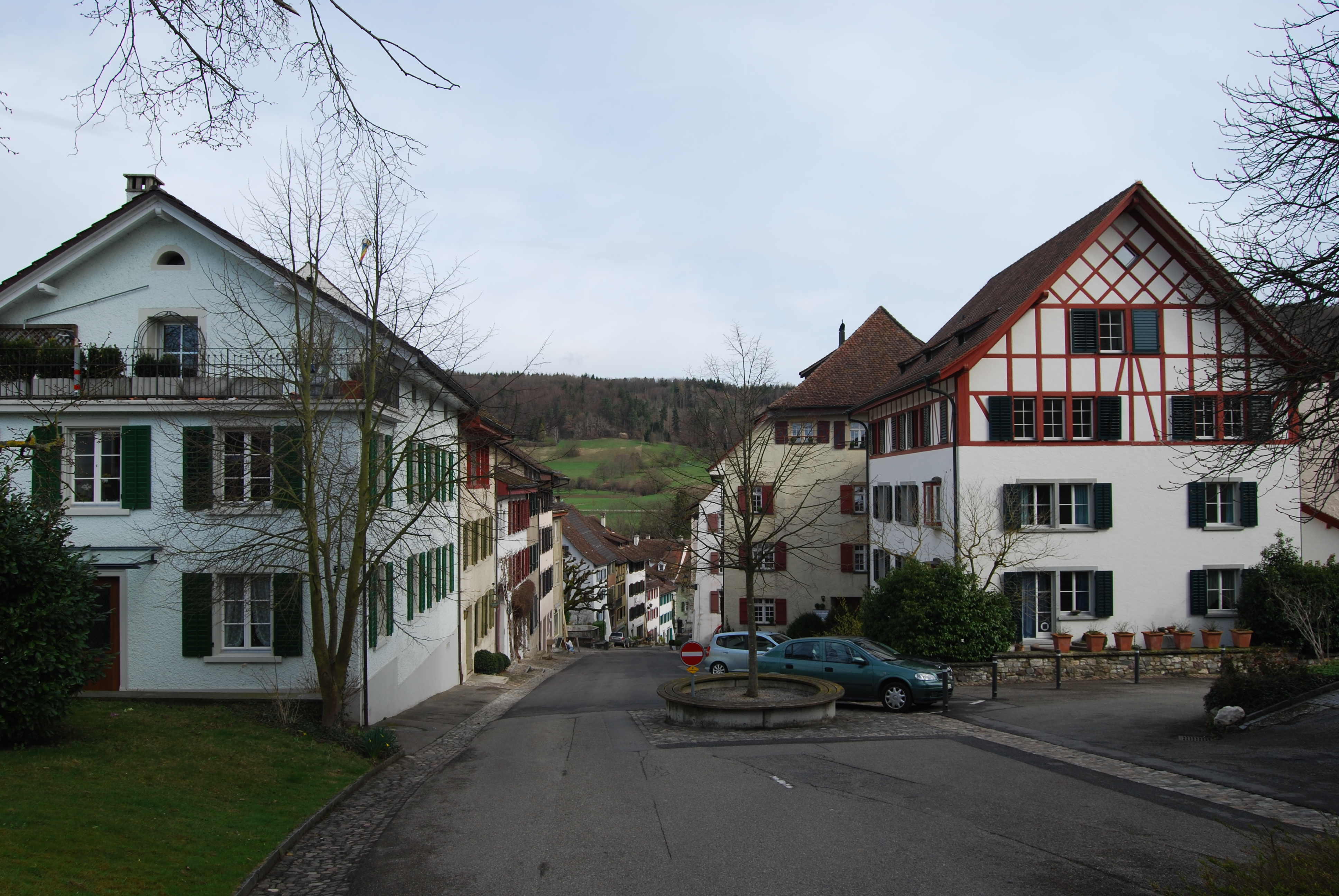 Old city center of Kaiserstuhl, canton of Aargau, SwitzerlandEsperanto: Malnova urbocentro de Kaiserstuhl, Kantono Argovio, Svislando